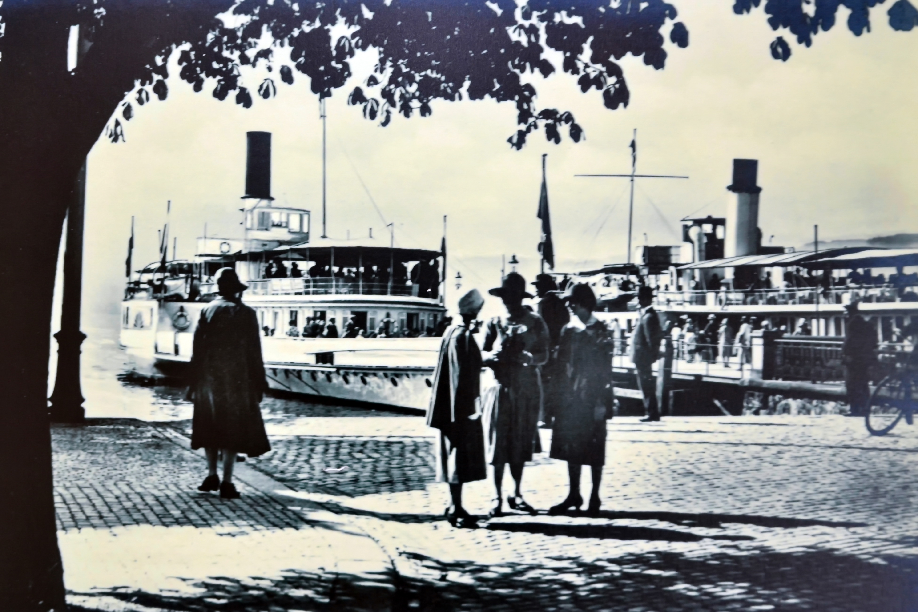 Centennial presentation of Zürichsee-Schifffahrtsgesellschaft (ZSG) paddle steamship Stadt Rapperswil at Bürkliplatz in Zürich (Switzerland)